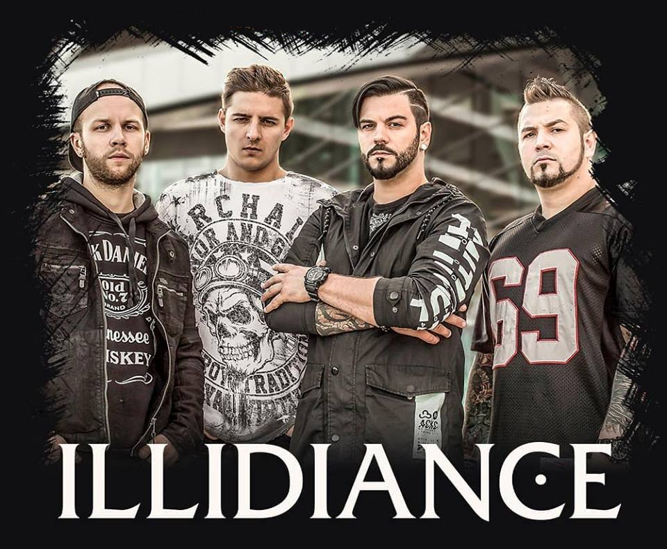 band foto